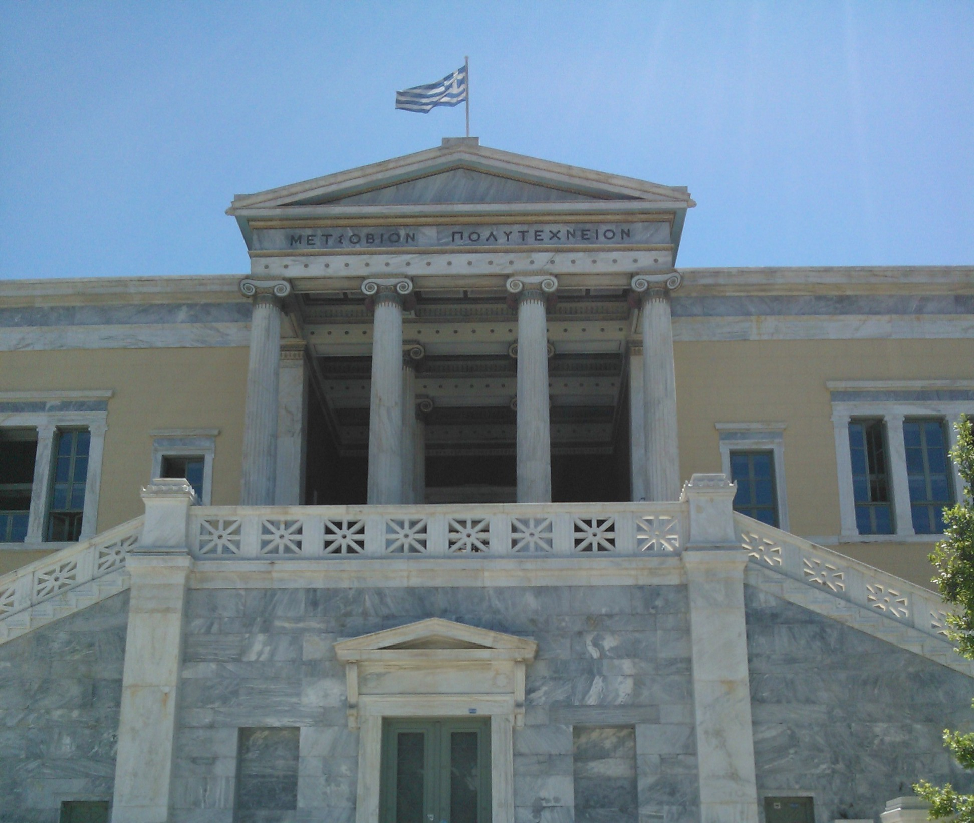 This is the main facade of the Averof Building on the NTUA Patision Campus